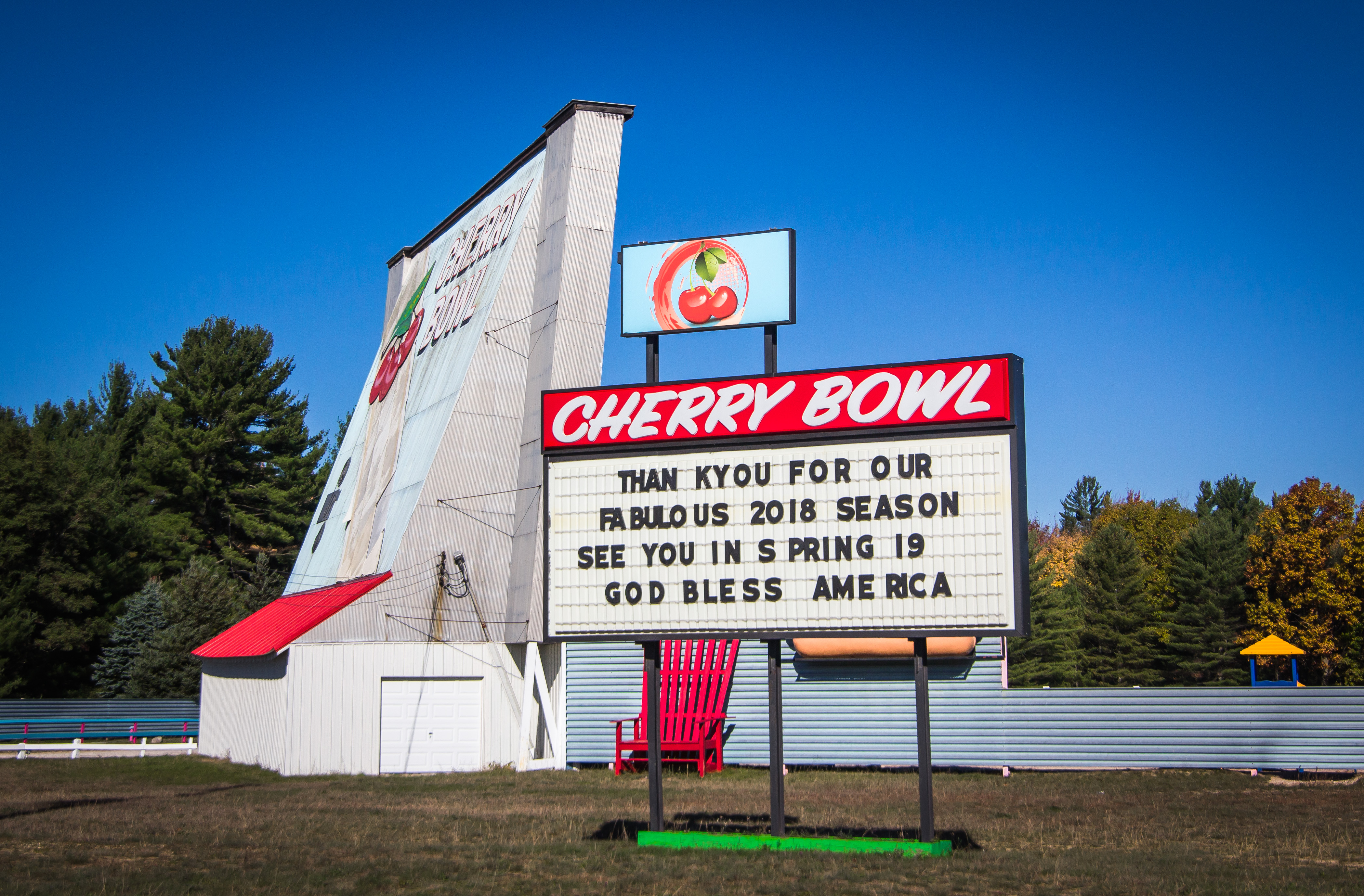 Cherry Bowl Drive-In Theatre & Diner